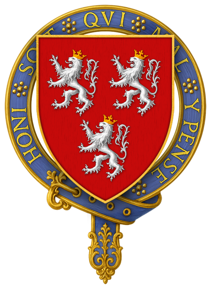 Coat of Arms of Sir Philip de la Vache, KG - based on stall plate still in place in the fifth stall on the Sovereign's side of St. George's Chapel ST. JOHN HOPE, W. H., The Stall Plates of the Knights of the Order of the Garter 1348 – 1485: A Series of Ninety Full-Sized Coloured Facsimiles with Descriptive Notes and Historical Introductions, Westminster: Archibald Constable and Company LTD, 1901. “ Sir Philip de la Vache, K.G. 1399-1408… arms, gules three lions silver crowned gold. ”